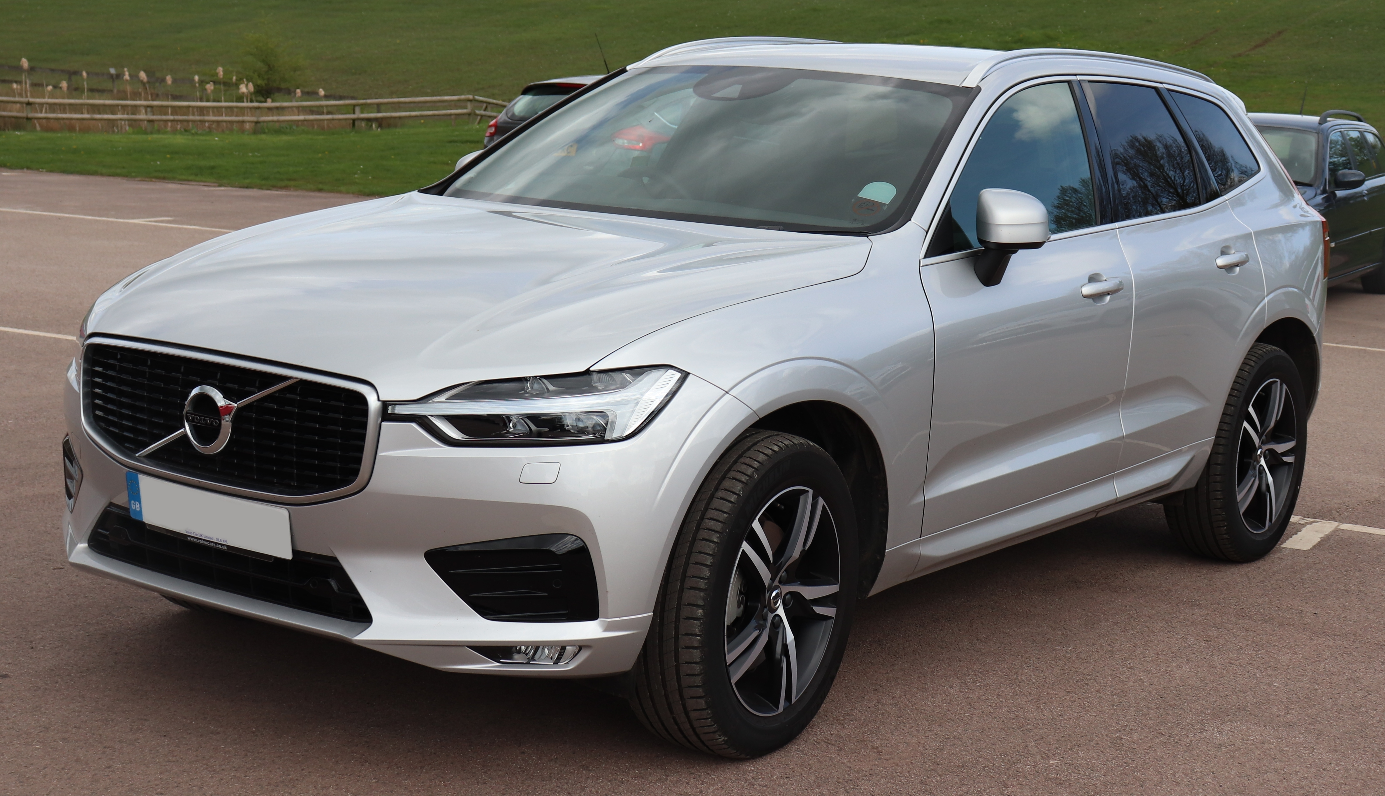 2018 Volvo XC60 R-Design D5 P-Pulse 2.0 Front Taken at the British Motor Museum, Gaydon